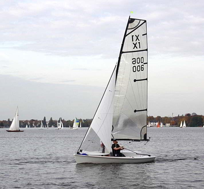 X1 Dinghy racing in the Alster Glocke.jpg